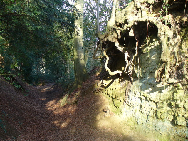 Warren Lane, Albury Sunken lane descending the Greensand Ridge to Albury - passing a sandstone cliff with tree roots on top of it.